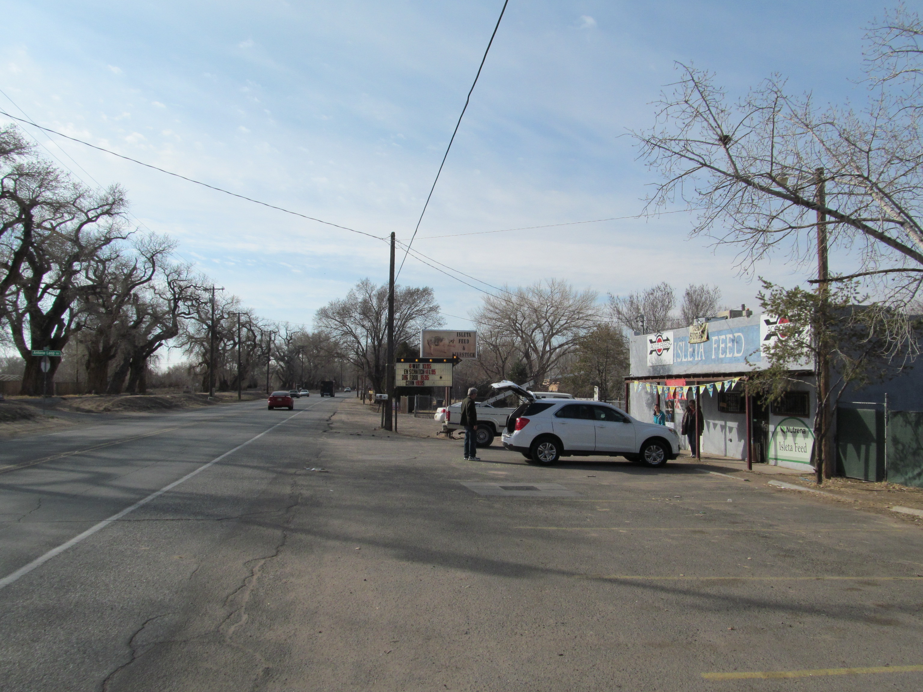 Isleta Feed, South Valley New Mexico